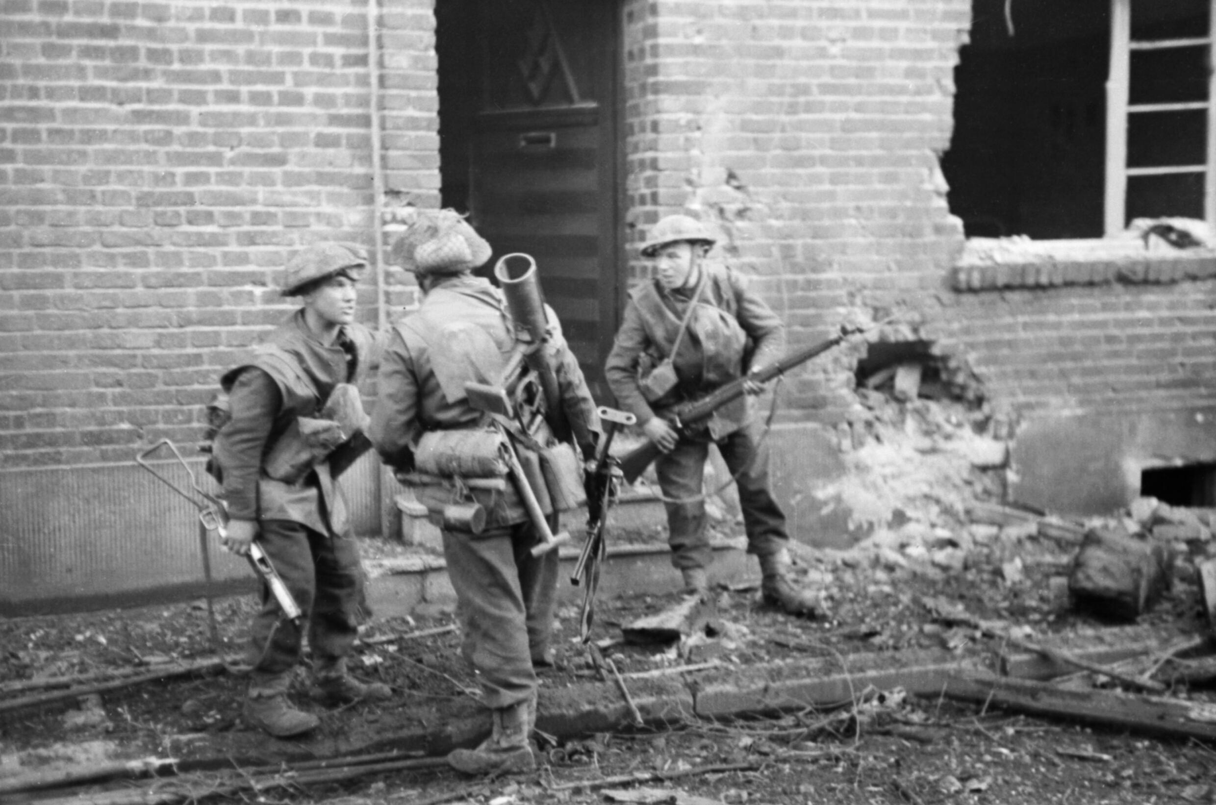 British infantry in action in the streets of Geilenkirchen, Germany, December 1944 Infantry in action in the streets of Geilenkirchen, December 1944.